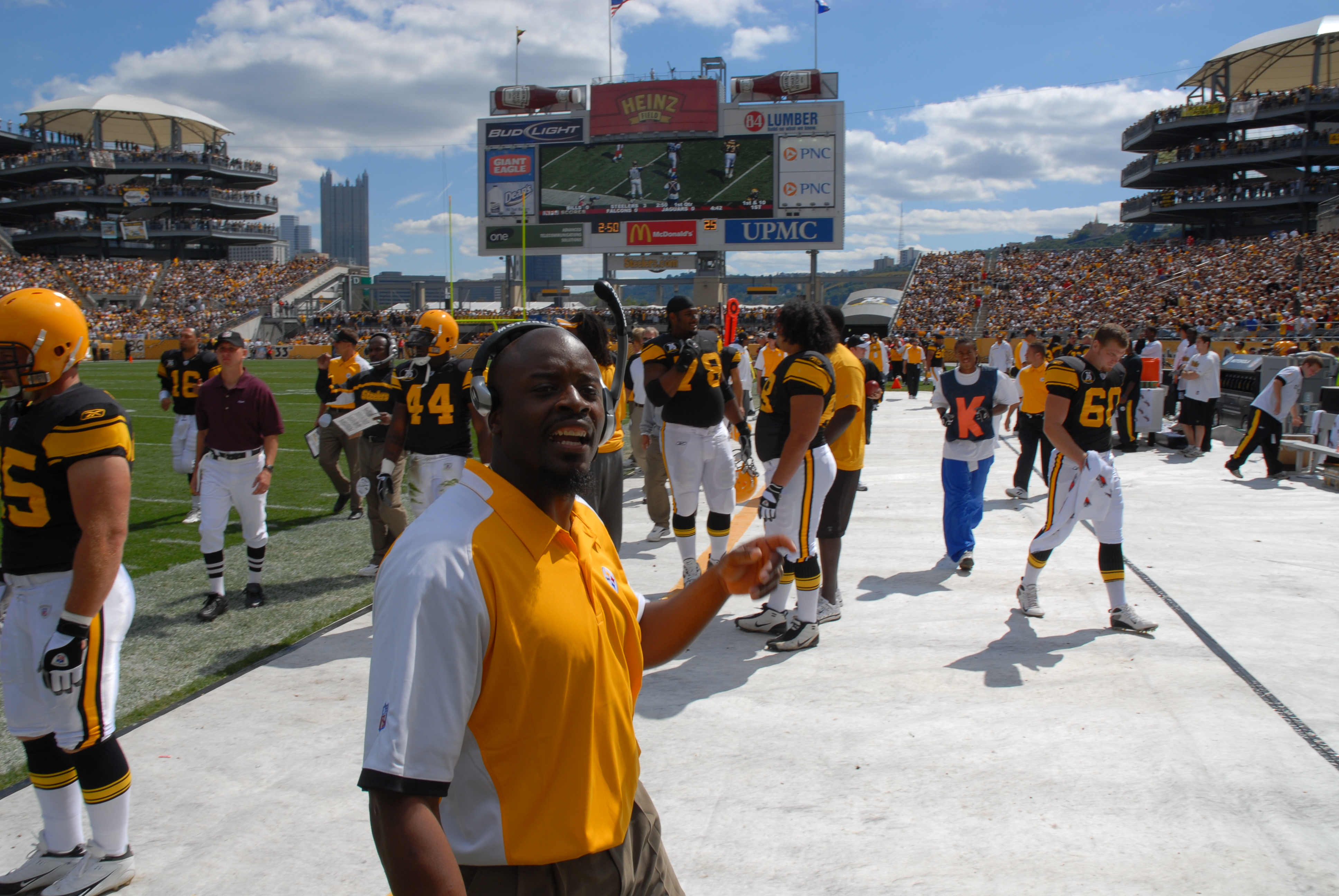 Pittsburgh Steelers running backs coach Kirby Wilson and other players on the sideline